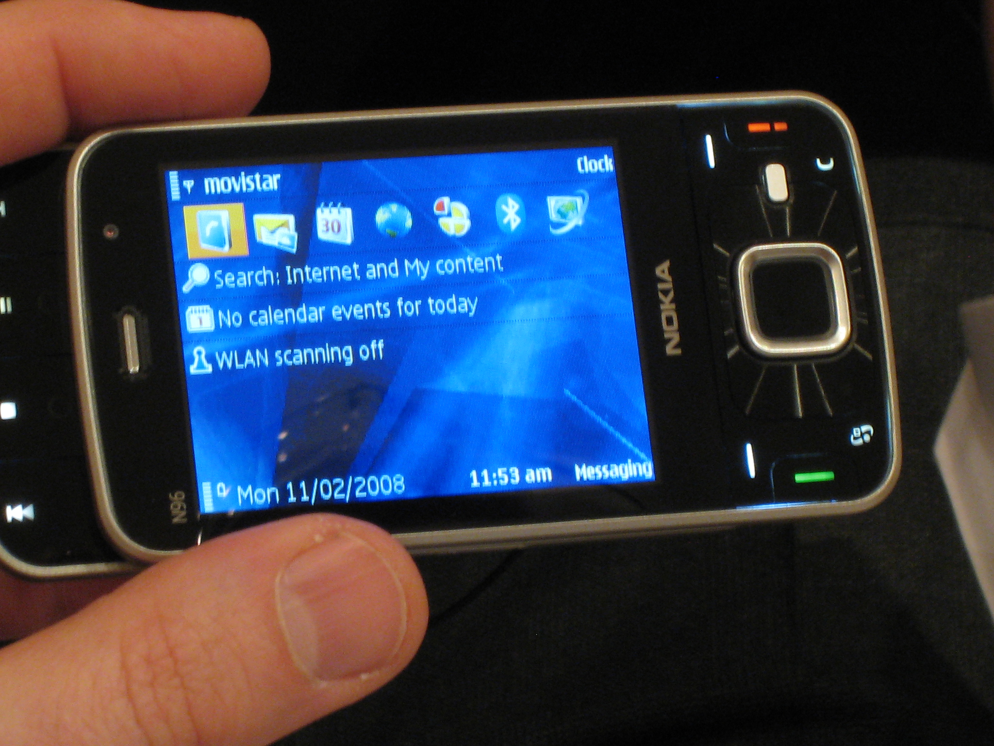 Hands on Nokia N96